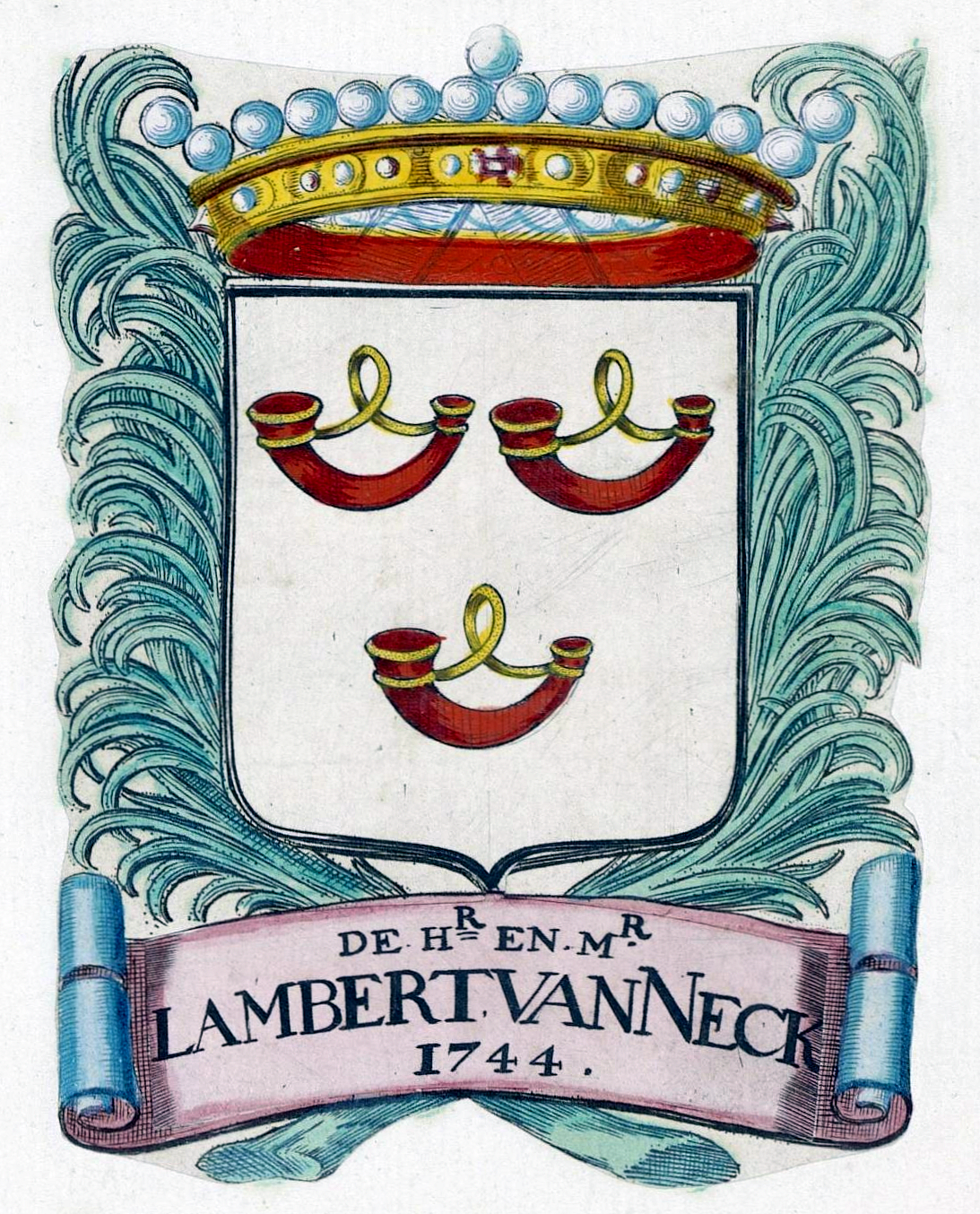 Coat of Arms of Lambert van Neck (1696-1749), pensionary of the city of Rotterdam, member of the city counsil of The Hague. Son of Cornelius Abrahamsz van Neck (1658-1697), brother of Sir Joshua Vanneck, 1st Baronet of Putney (1702-1777)